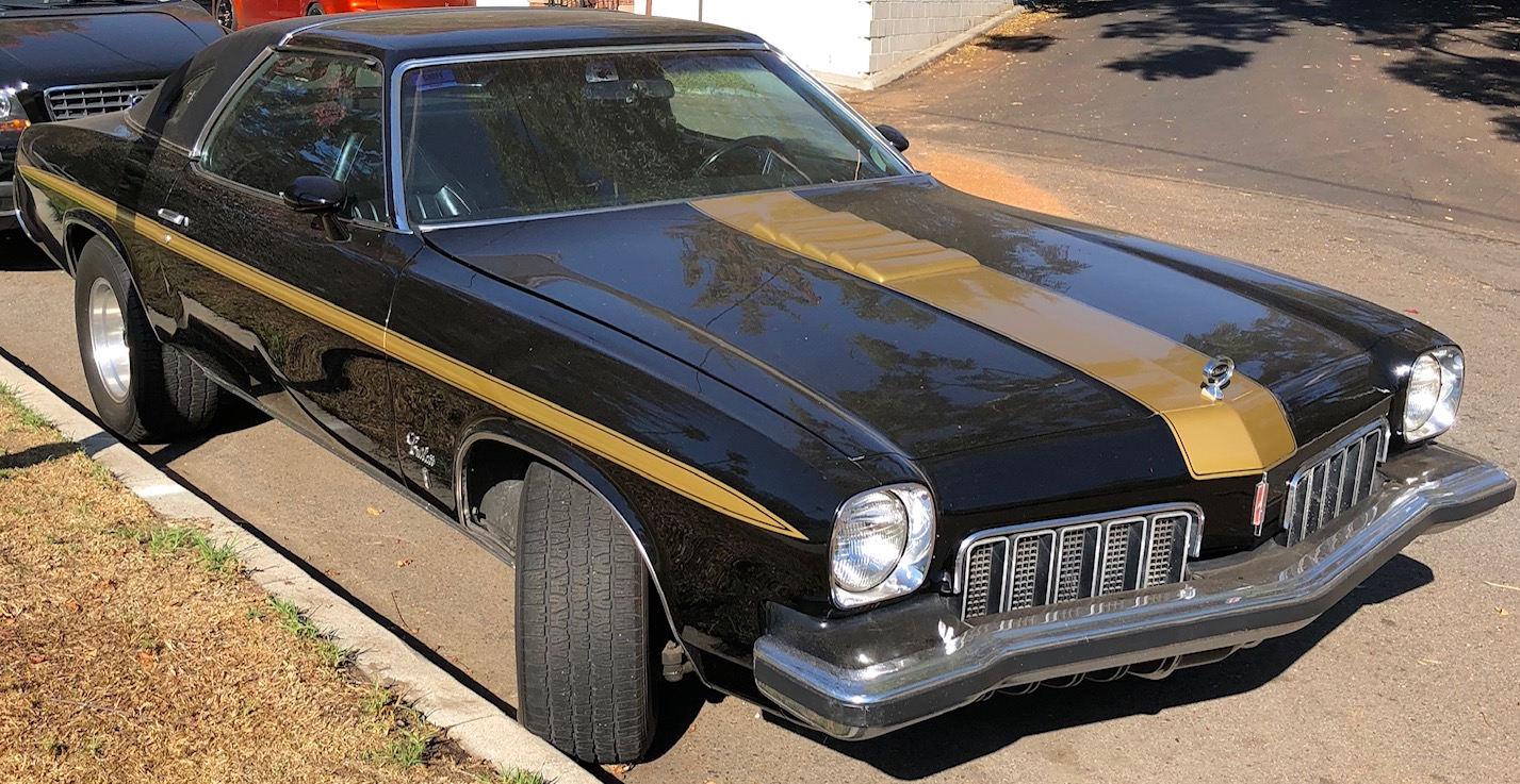 Hurst OLDSMOBILE CUTLASS